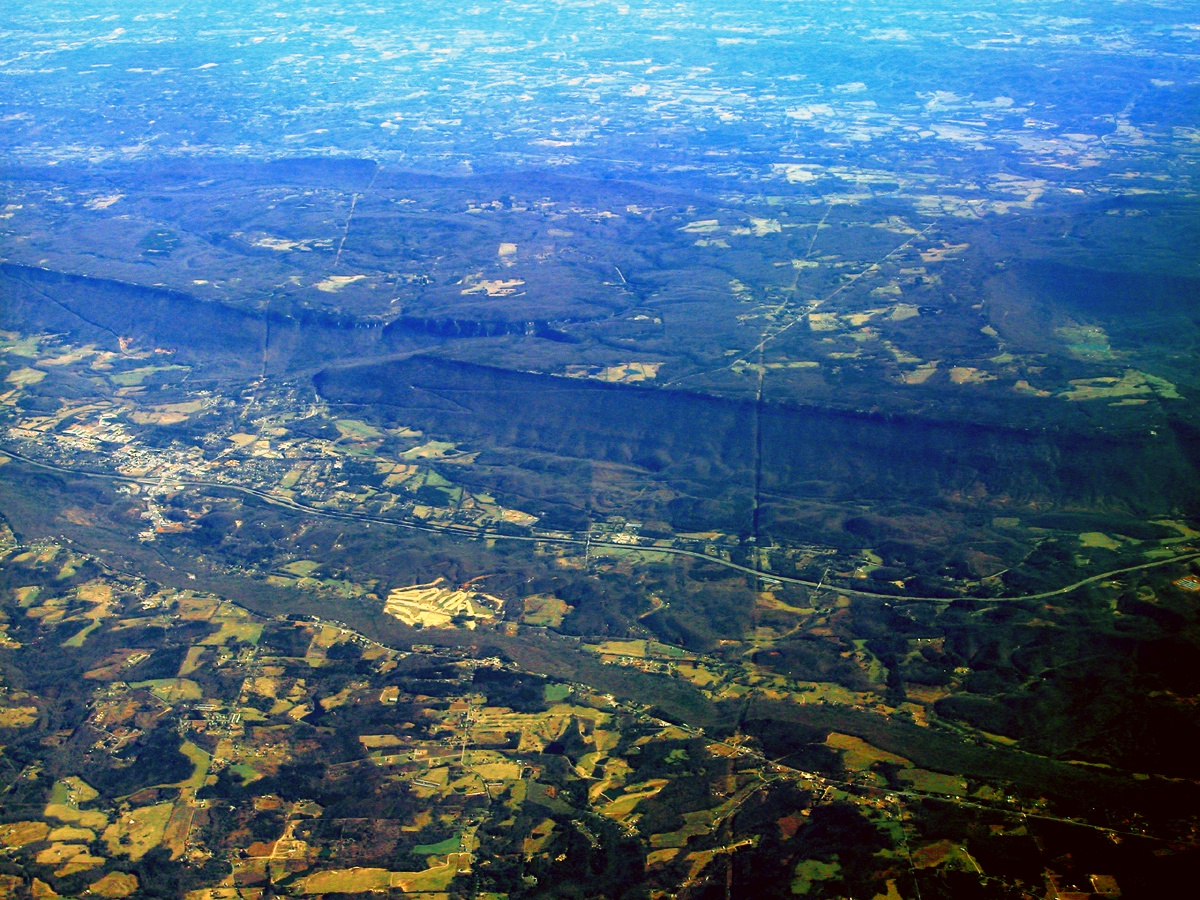 Aerial view of the southern margin of the Cumberland Plateau in NW Georgia. In the lower left there is a tiny portion of the top plateau of Sand Mountain. Above that is a portion of the Lookout Creek valley with the town of Trenton, Georgia, and the Interstate 59. Further up, in about the middle third of the picture there are the steep flanks and the top plateau of the northern portion of Lookout Mountain whose northern tip is at Chattanooga, Tennessee (far outside the left margin of the picture).